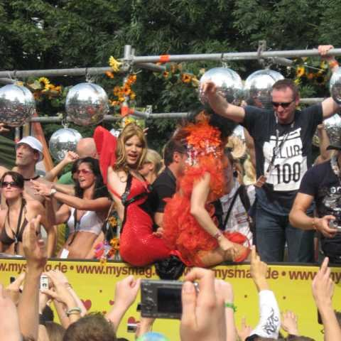 Picture of the loveparade in Essen